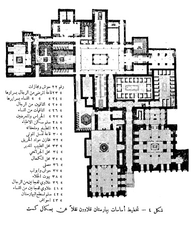 Qalawon Bimarstan